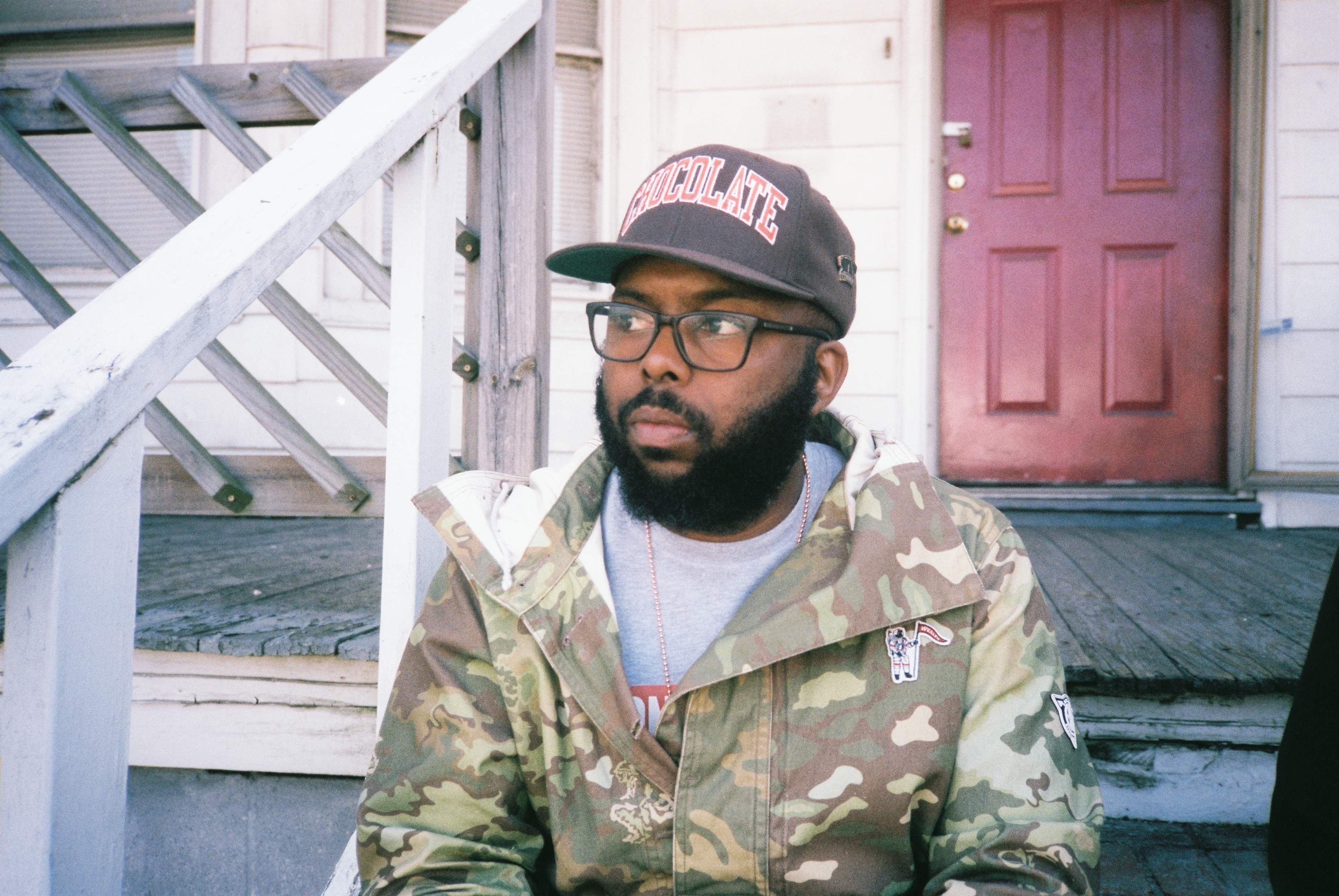 Awon, Virginia emcee